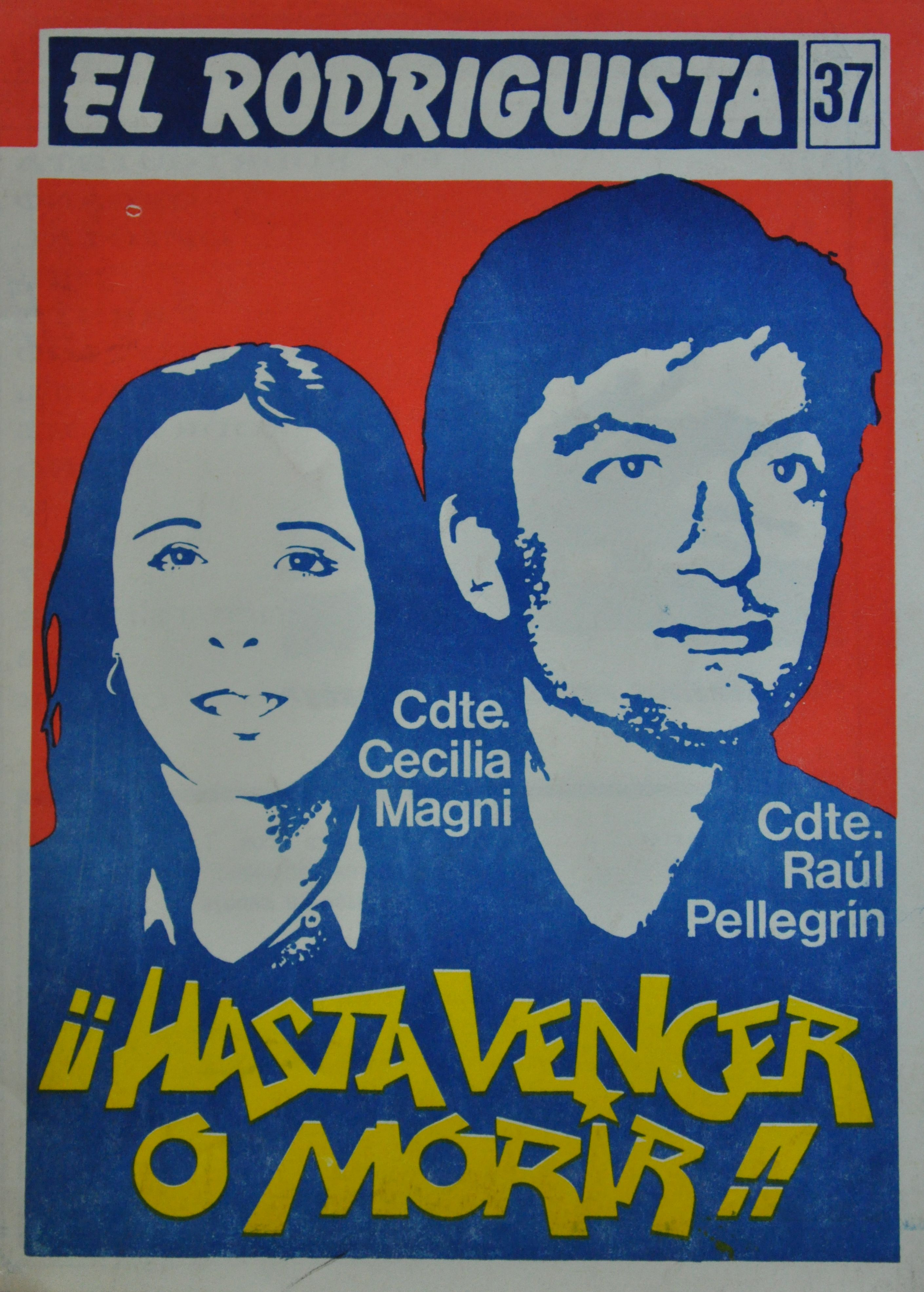 Cover of an underground magazine of the era of dictatorship in Chile ("El Rodriguista" Nr. 37, November 1988).